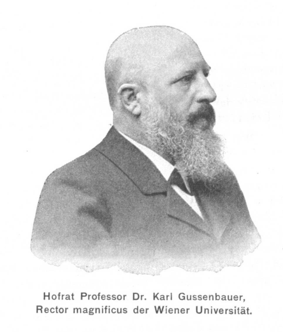 Portrait of Carl Gussenbauer (1842-1903), Austrian surgeon